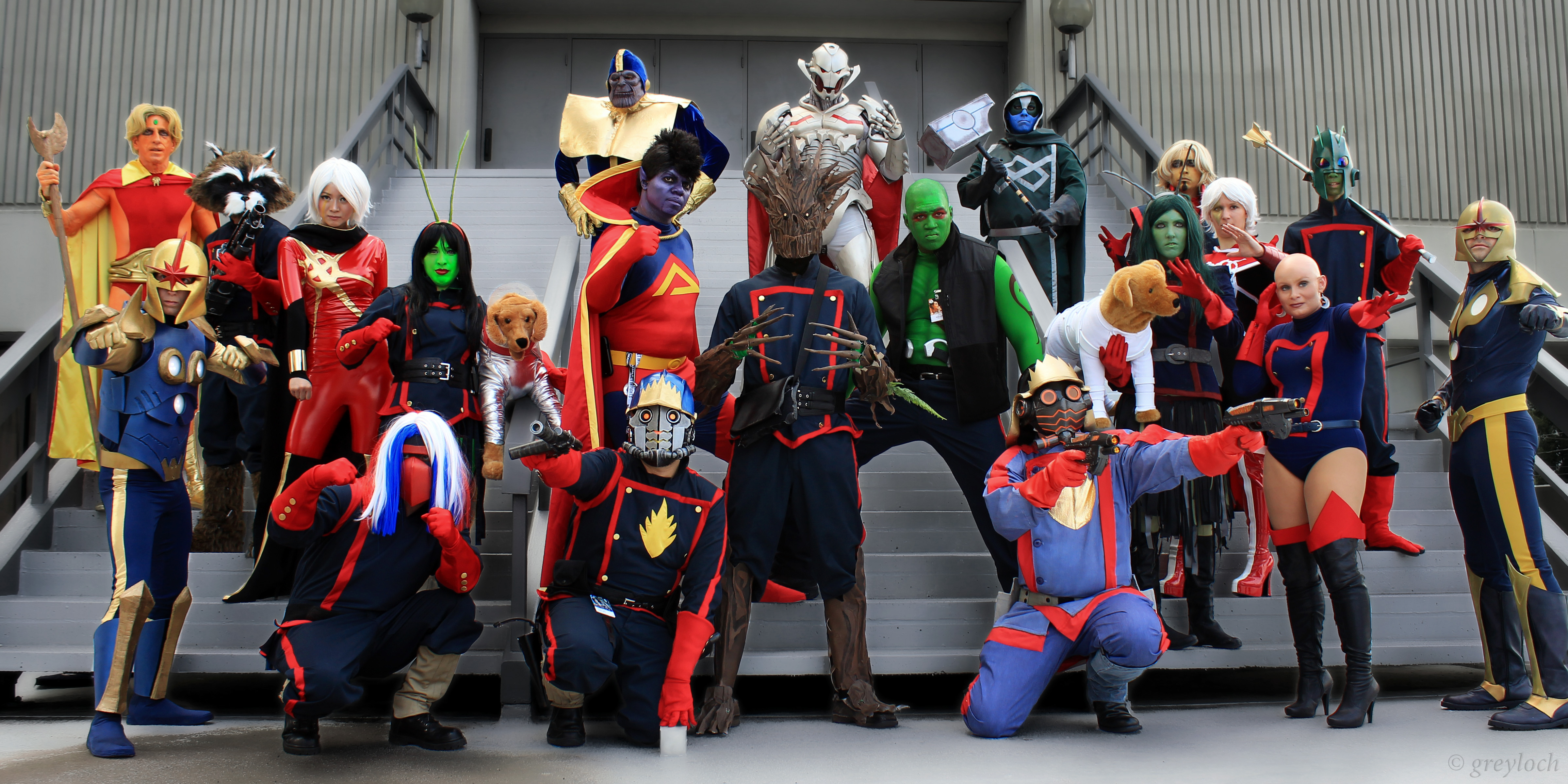 Group photo from the "Marvel Cosmic" photo-shoot at Dragon*Con 2013. Mostly, this group is comprised of "Guardians of the Galaxy" plus a few others. EDIT: This photo made it on to Flickr's Explore page at number 245! I think that's my personal best Explore ranking. UPDATE #1: The Guardians of the Galaxy were featured in Uproxx's Funny, Sexy, And Awesome Cosplay Of The Week (06.27.14). I'm shocked - shocked, I tell you - that people liked this picture so much. Thanks for showing all the love for these cosplayers, folks! UPDATE #2: Found out that PBS Digital Studios used this pic as the thumbnail link for their YouTube video, "Is Cosplay a Form of Theatre?" I think this is the first time my work has made it to a YouTube project. Wow! O.O!!